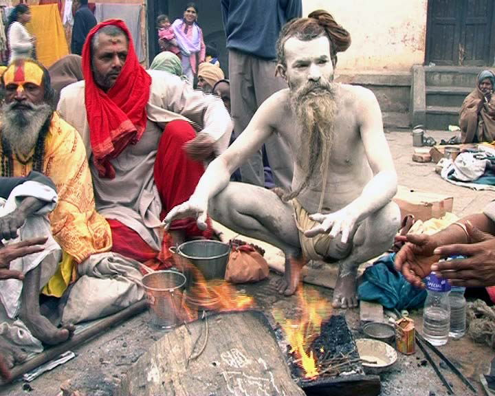 A sadhu in Pashupati temple